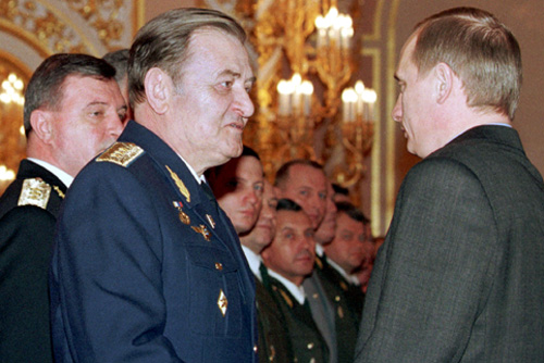 GRAND KREMLIN PALACE, MOSCOW. Mr Putin presented the epaulets of general of the army to Anatoly Kornukov, commander-in-chief of the Russian Air Force.